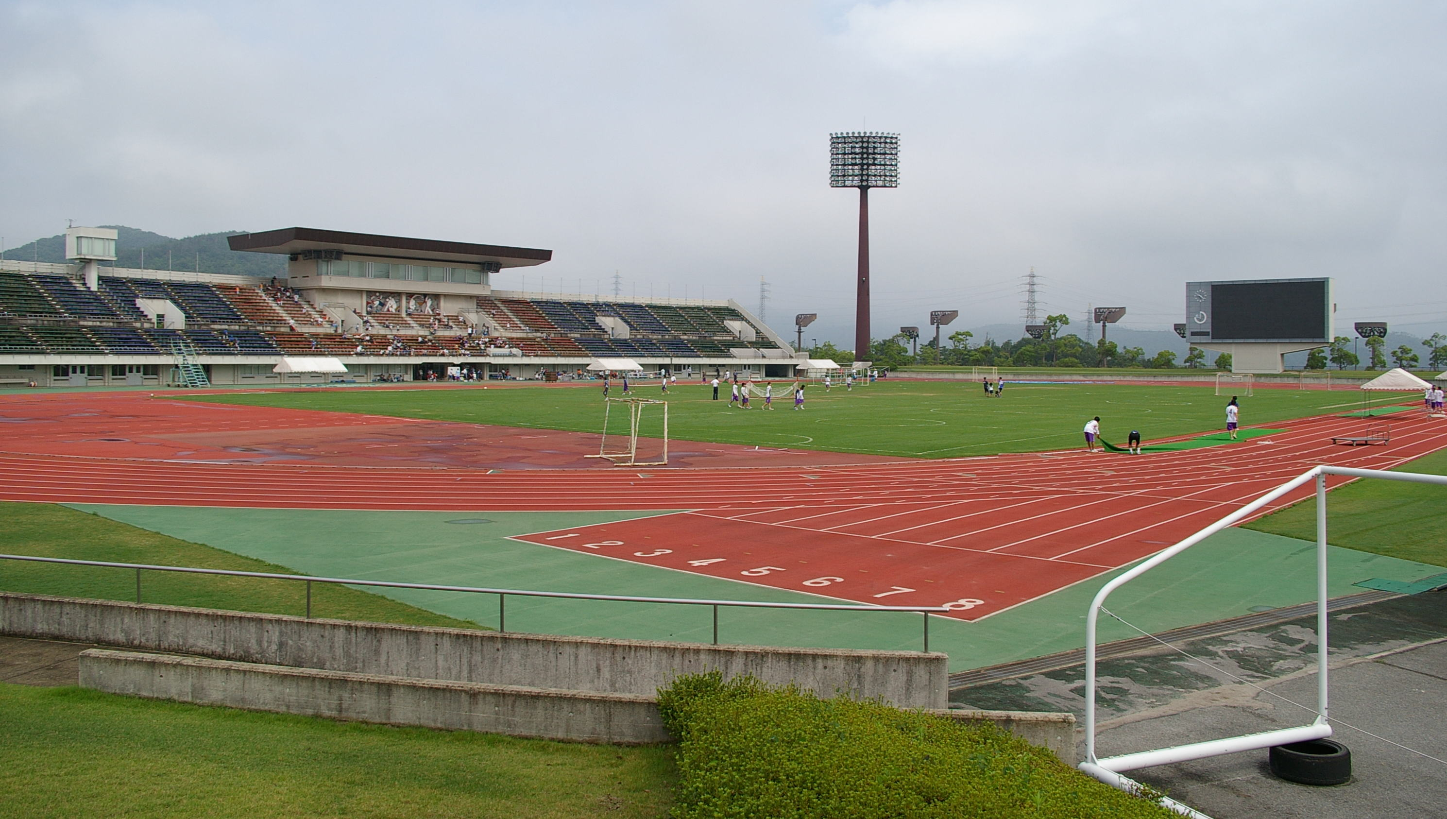 Bingo Sports Park Main Stadium